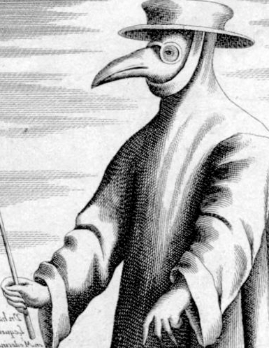 Gerhart Altzenbach, Kleidung widder den Todt: Anno 1656 (Habitus Contra Mortem / Un habit contre la Morte), c.1656. The engraving depicts a Roman plague doctor wearing protective clothing – including glass goggles and beak-shaped mask – typical of its time and place. The attire and its purpose are described in Latin, French and German. The image is discussed in G. L. Townsend, ‘The Plague Doctor’, J Hist Med Allied Sci, 20 (1965), 276.